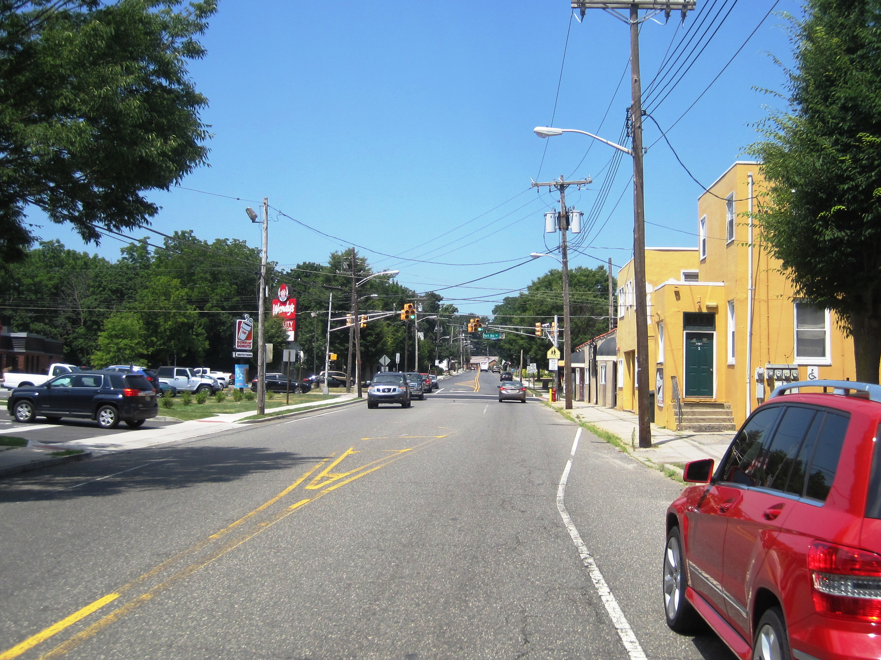 Photo showing the center of Wrightstown, New Jersey taken along westbound County Route 616 (East Main Street) between Railroad Avenue and Fort Dix Street (CR 545).